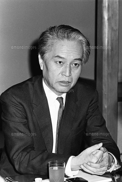 Japanese literary critic, Ken Hirano (1907-1978)